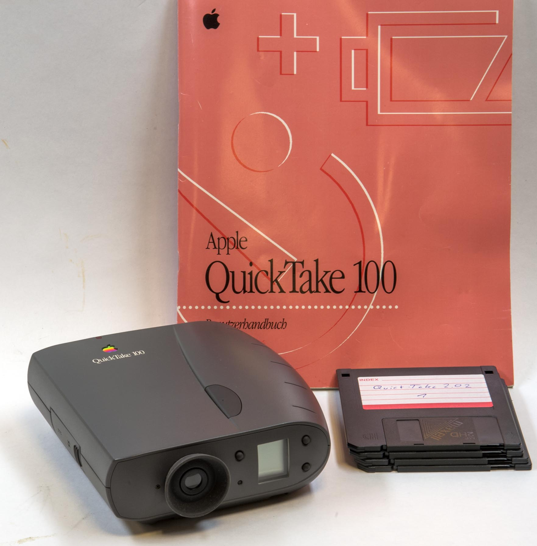 Apple Quicktake 100 Digitalkamera with manual